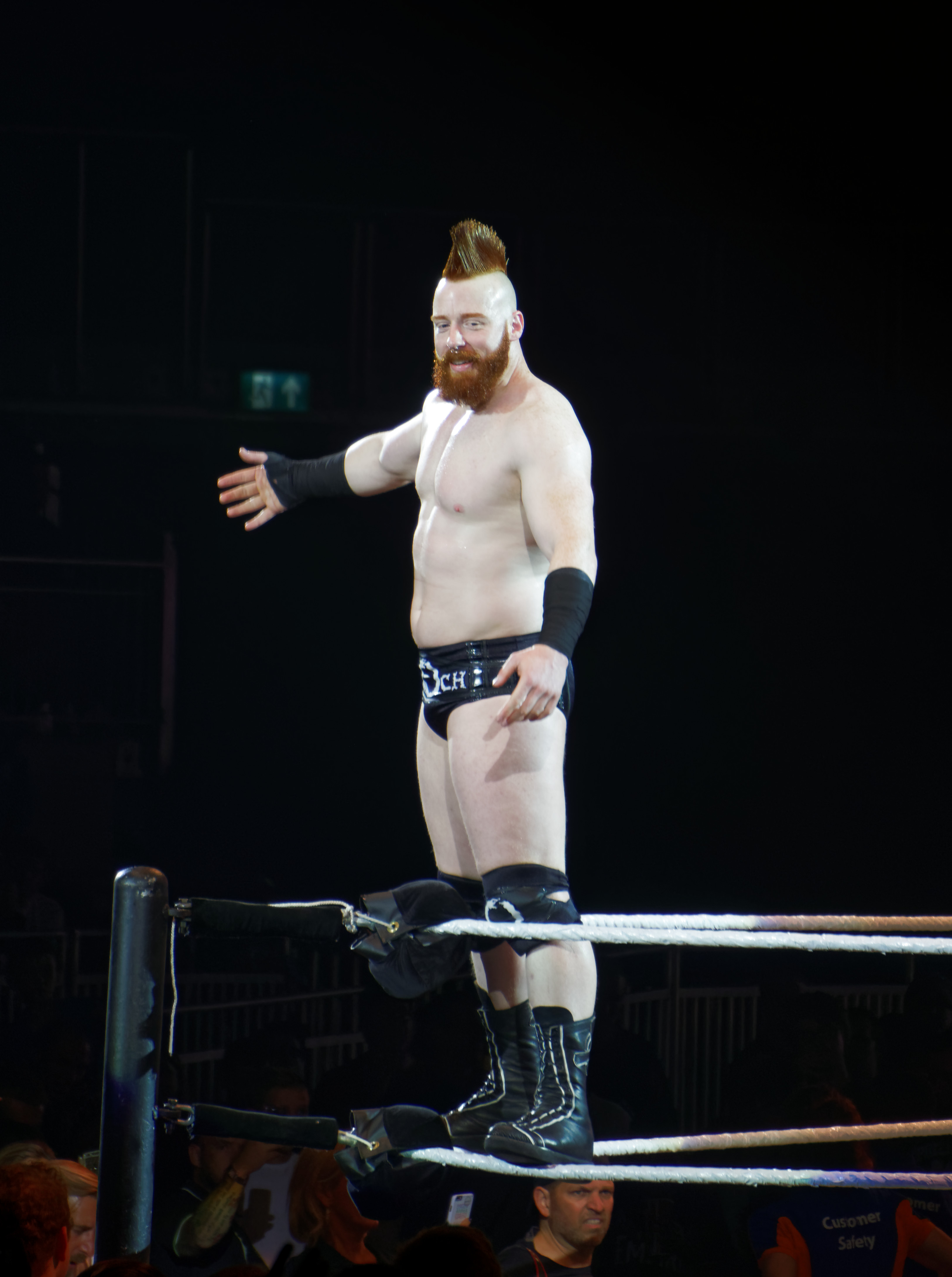 WWE Live returns to London this September Join Roman Reigns, Seth Rollins and more WWE Superstars at the 02 Arena for a one-night-only WWE Live in London on Wednesday, 7 Sept. Cesaro def. (pin) Sheamus Type of match : 'Best of 7' series